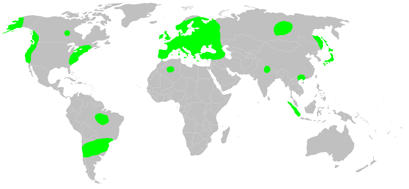 Known distribution of Zygiella x-notata (Araneidae), data from British Arachnological Society, 2006